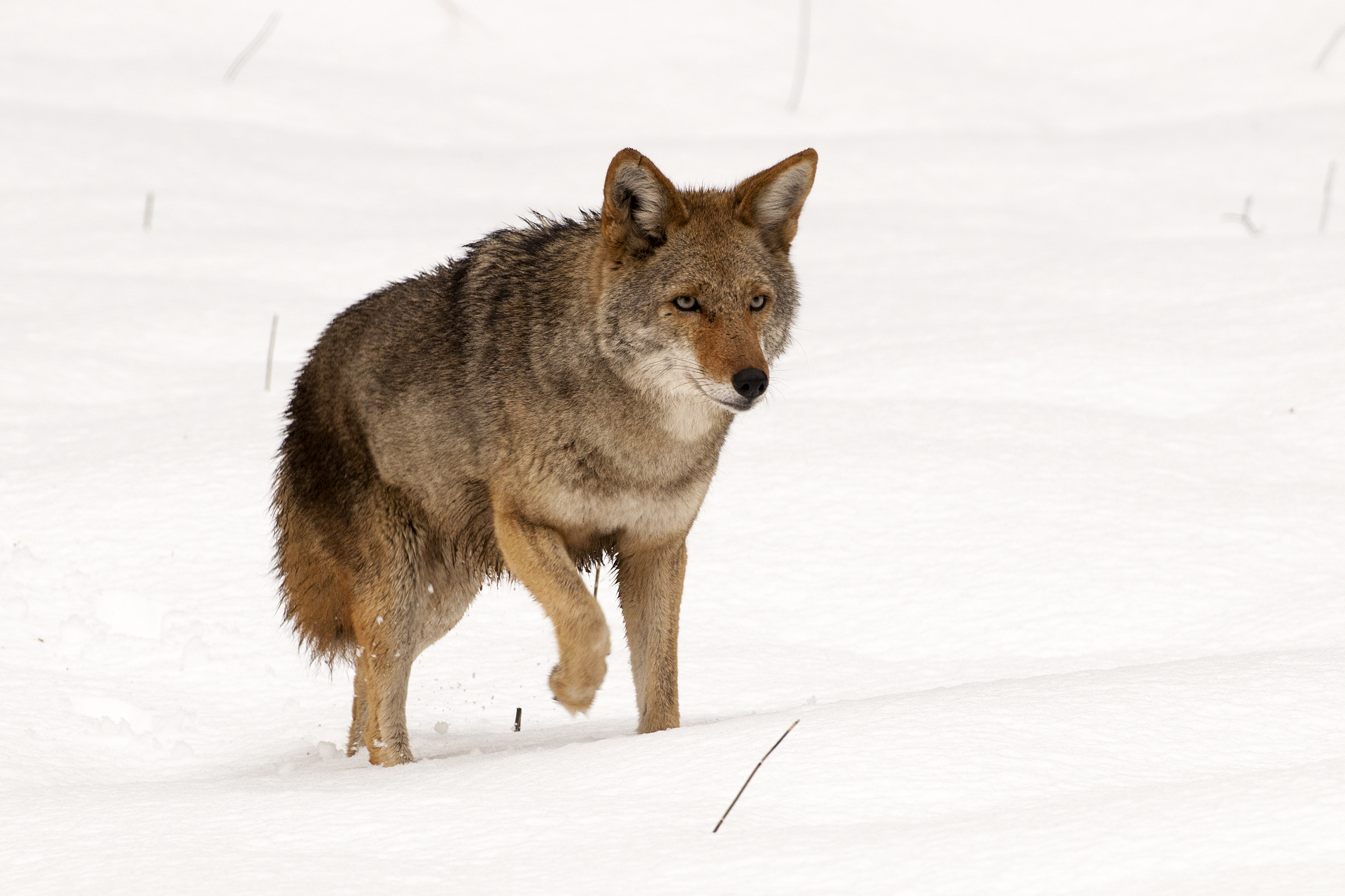 Coyote (Canis latrans lestes) walking in snow in the Yosemite National Park, California.